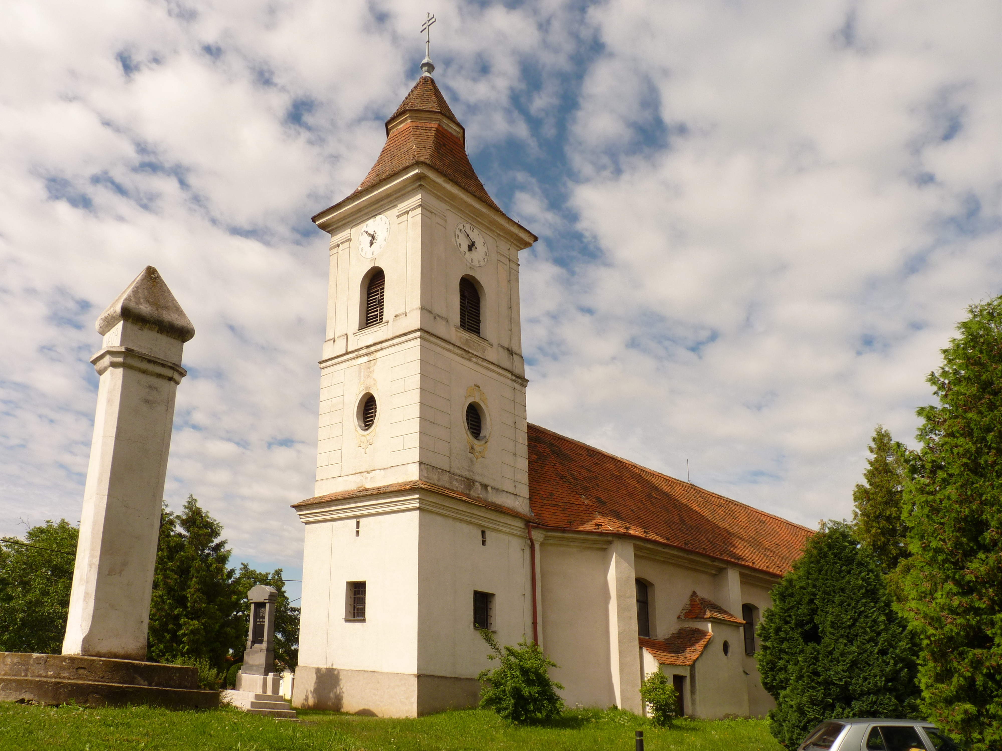 Saint Giles' church in Lukov, Moravia, Czech Republic.